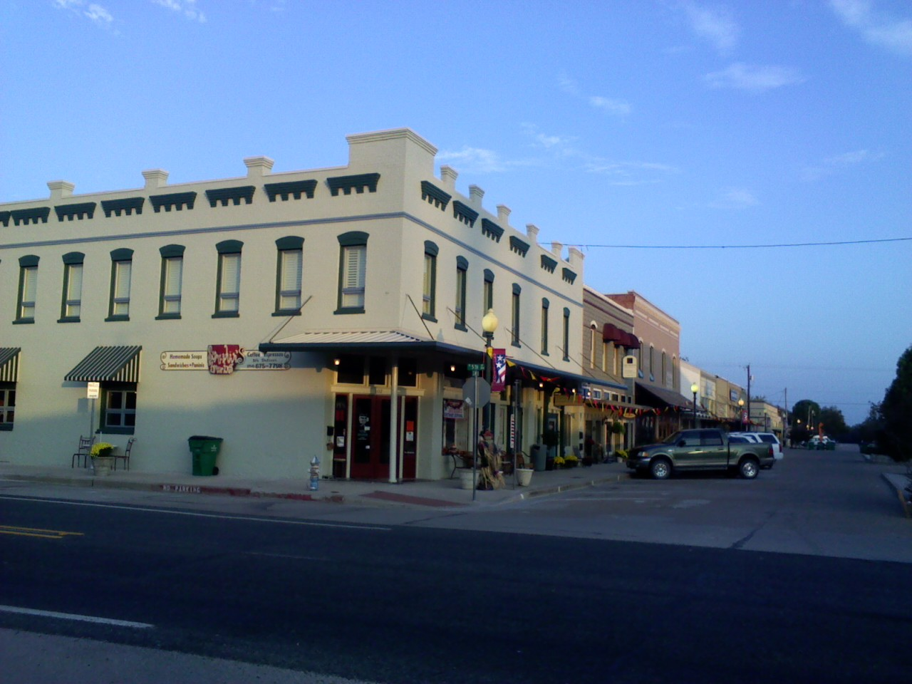 View of Clifton, Texas on Farm to Market Road 219 (5th Street) looking north on Avenue D, West side of street.